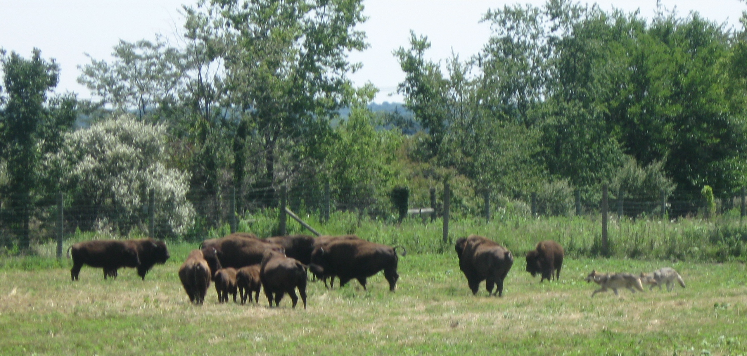 Wolf-Bison Demonstration at Wolf Park, Battle Ground, Indiana USA. The Wolves want to hunt the bison, but the bison know they have nothing to fear.